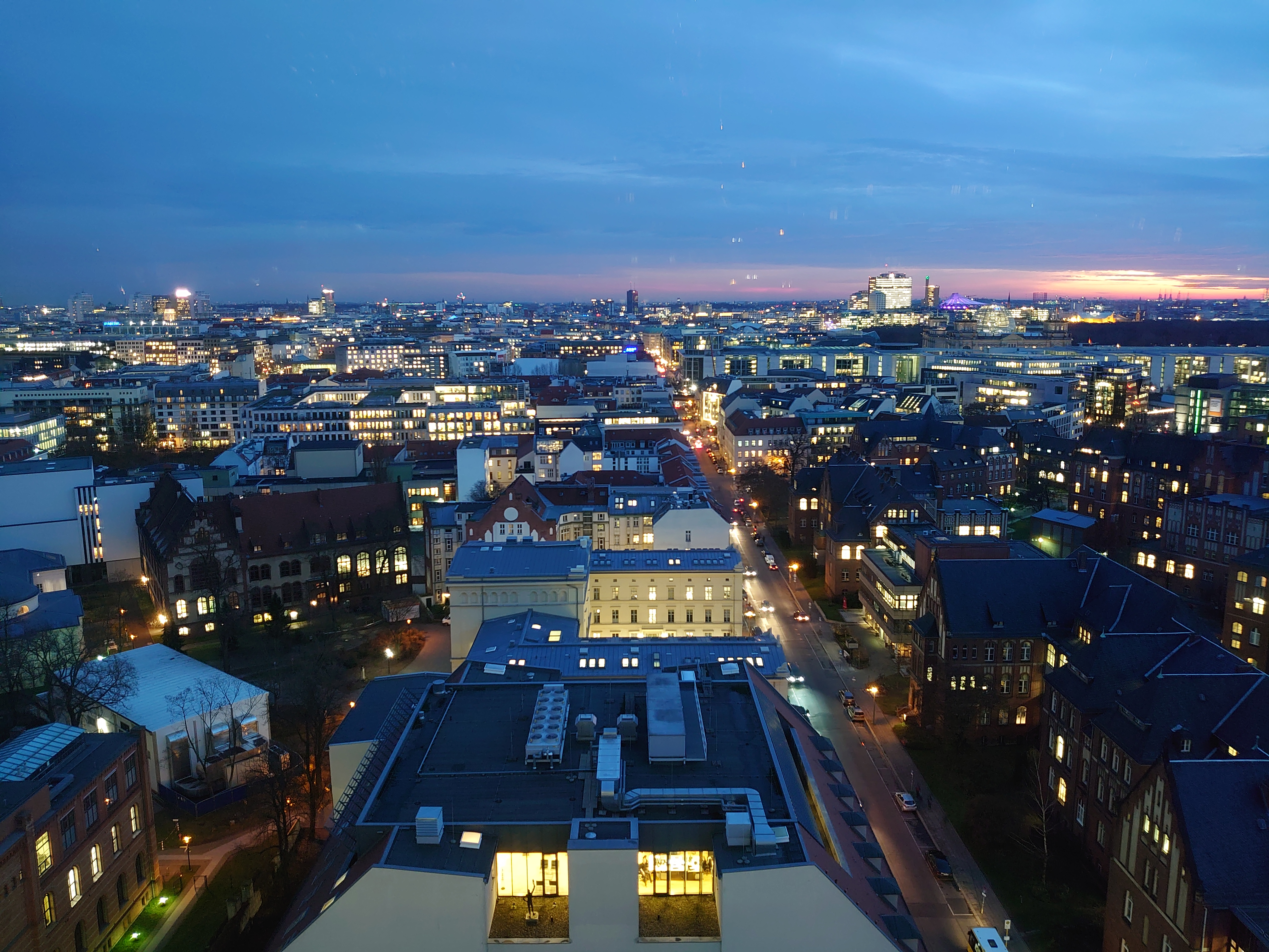 View from the 17th floor of the Charité Hospital High-rise Building (south side), the glass Reichstag dome is visible on the back right